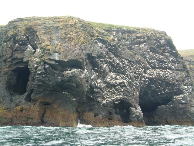 Kittiwake colony on the seacliffs of Sandray in the Outer Hebrides of Scotland.